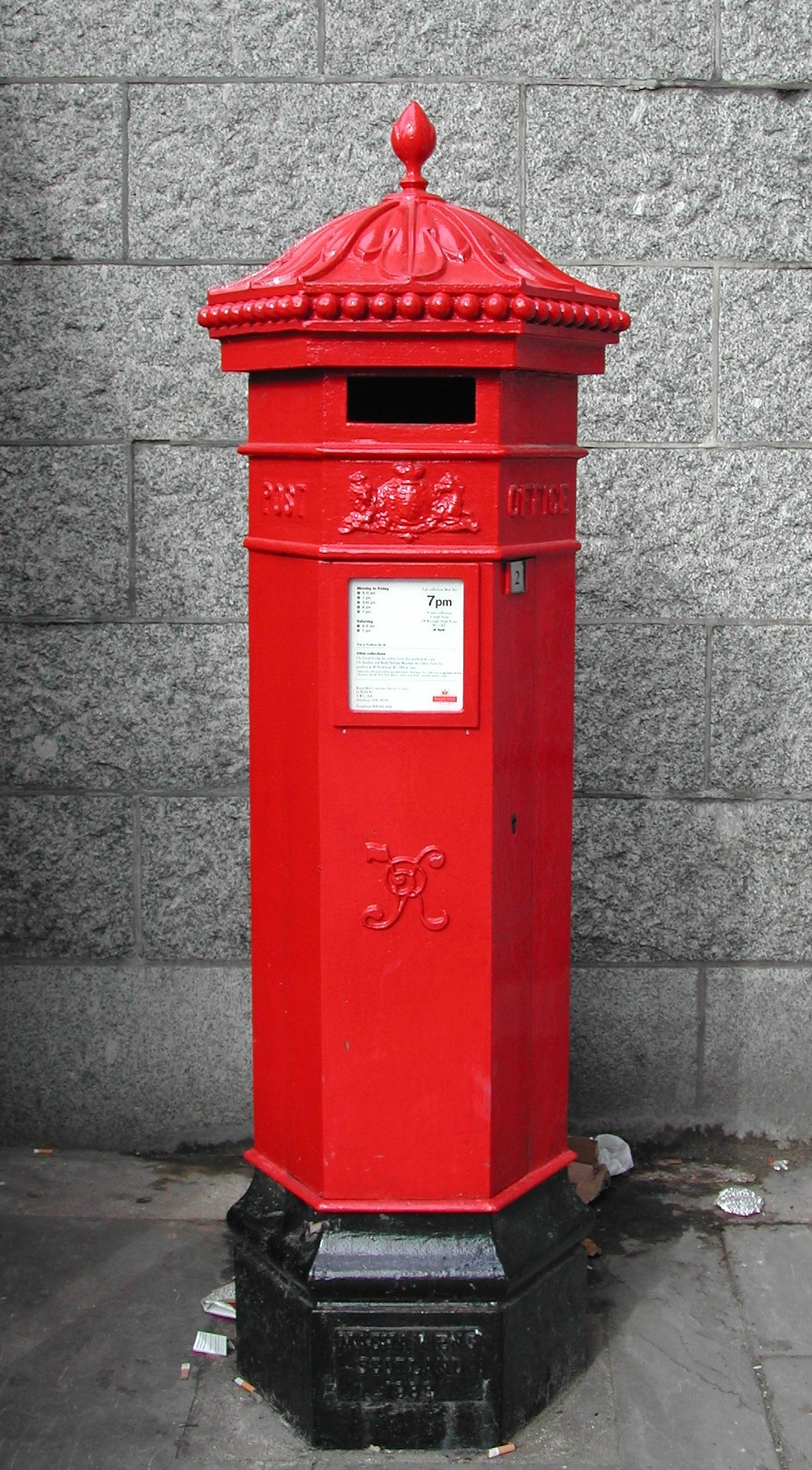 The first Replica Penfold, installed at Tower Bridge, London, in 1989. Taken by Kitmaster 18:27, 20 March 2007 (UTC) on 4th May 2006 on coolpix 885